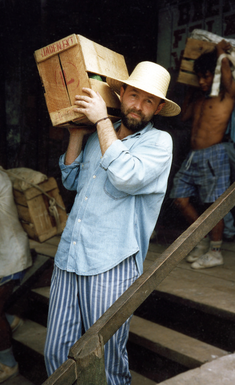 Jiří Kuchař in the Peruvian port Iquitos on the day he was traveling to Amazon to the forest camp on the Yarapa River for Ayahuasca rituals with shaman Don Augusto.